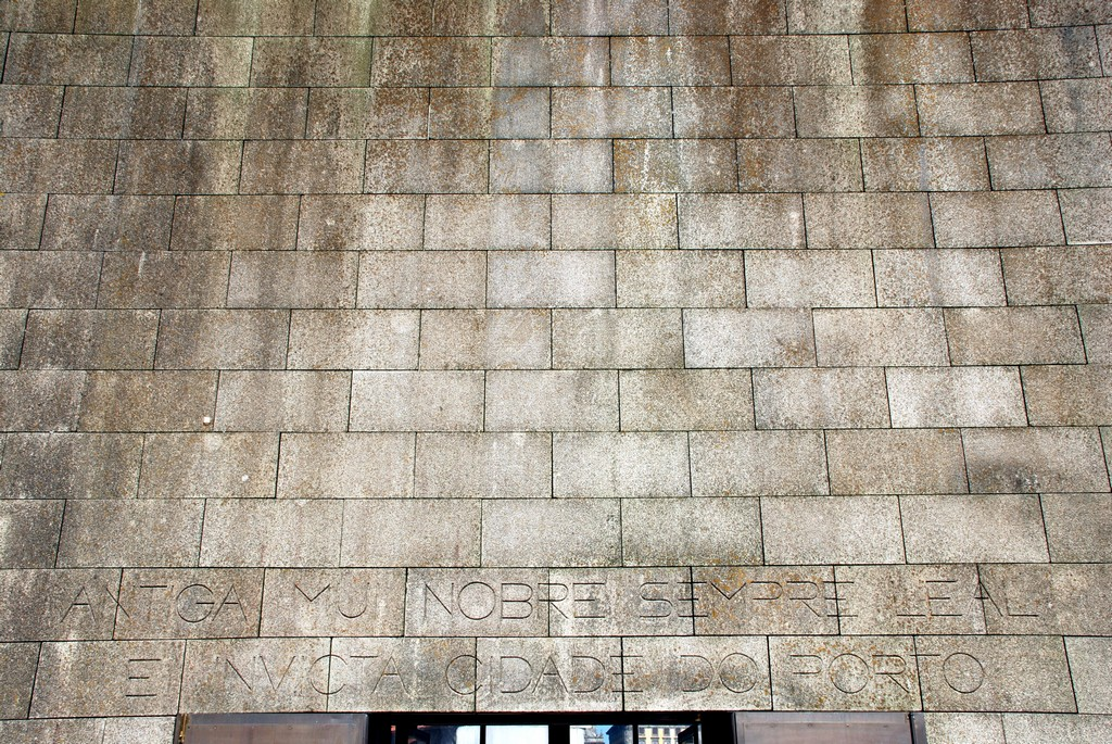 Antiga Mui Nobre Sempre Leal e Invicta Cidade do Porto (Ancient, very noble, always loyal and invincible city of Porto). This is the city motto inscripted over a building near the cathedral.